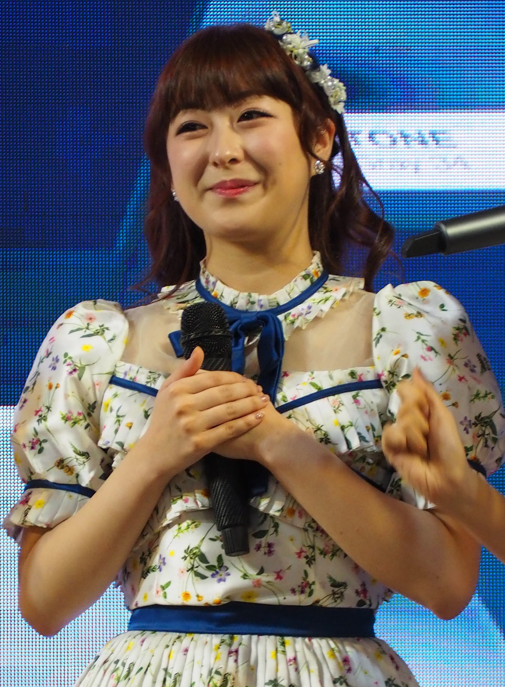 Izurina BNK48 (Rina Izuta) @Toyota Big Day Special in Central Plaza Khon Kaen, Khon Kaen, Thailand.